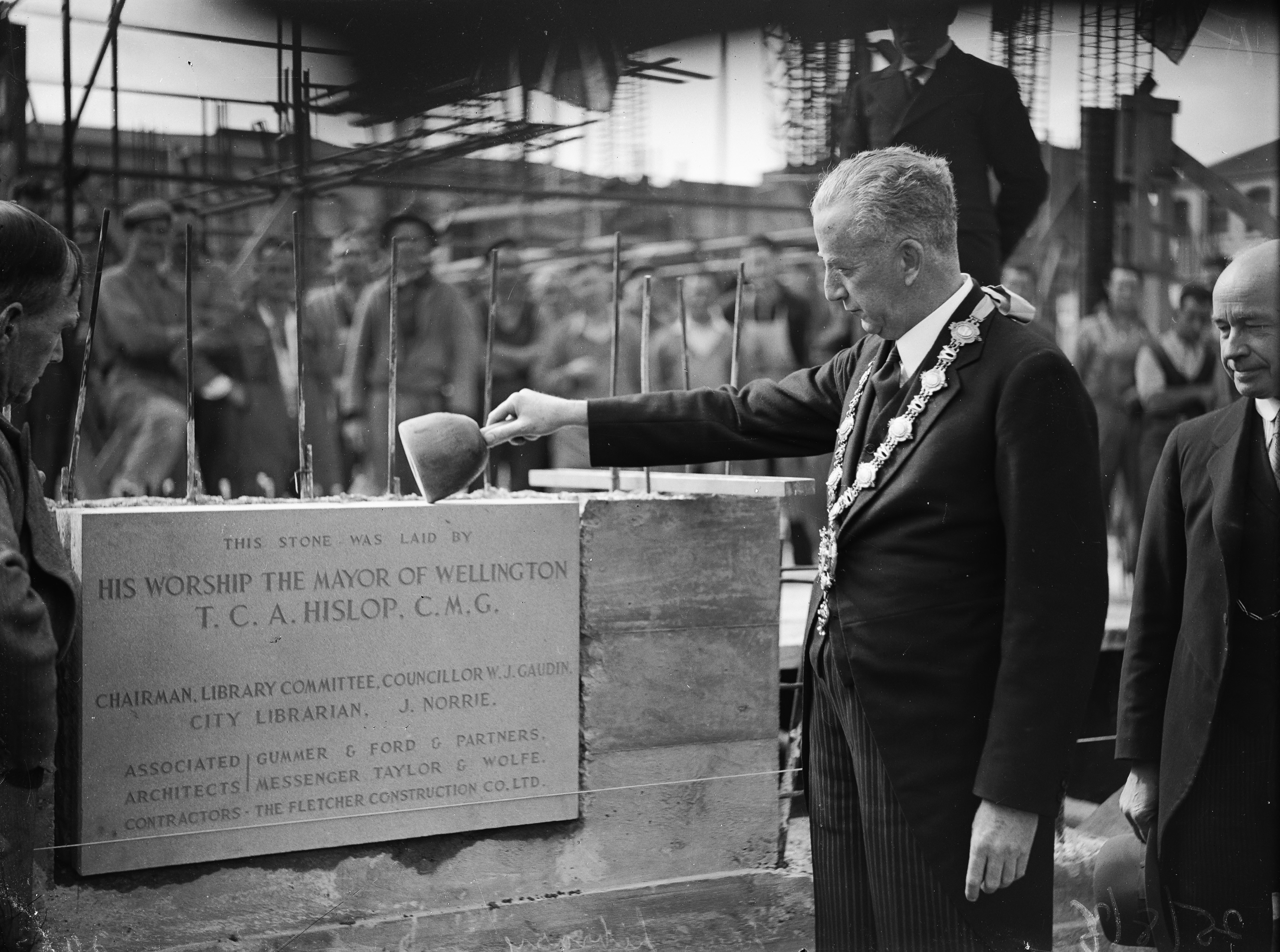 Mayor of Wellington, Thomas Hislop, laying the foundation stone of the Wellington Public Library, 25 August, 1938. Behind him stands W J Gaudin, chairman of the City Council's Library Committee.